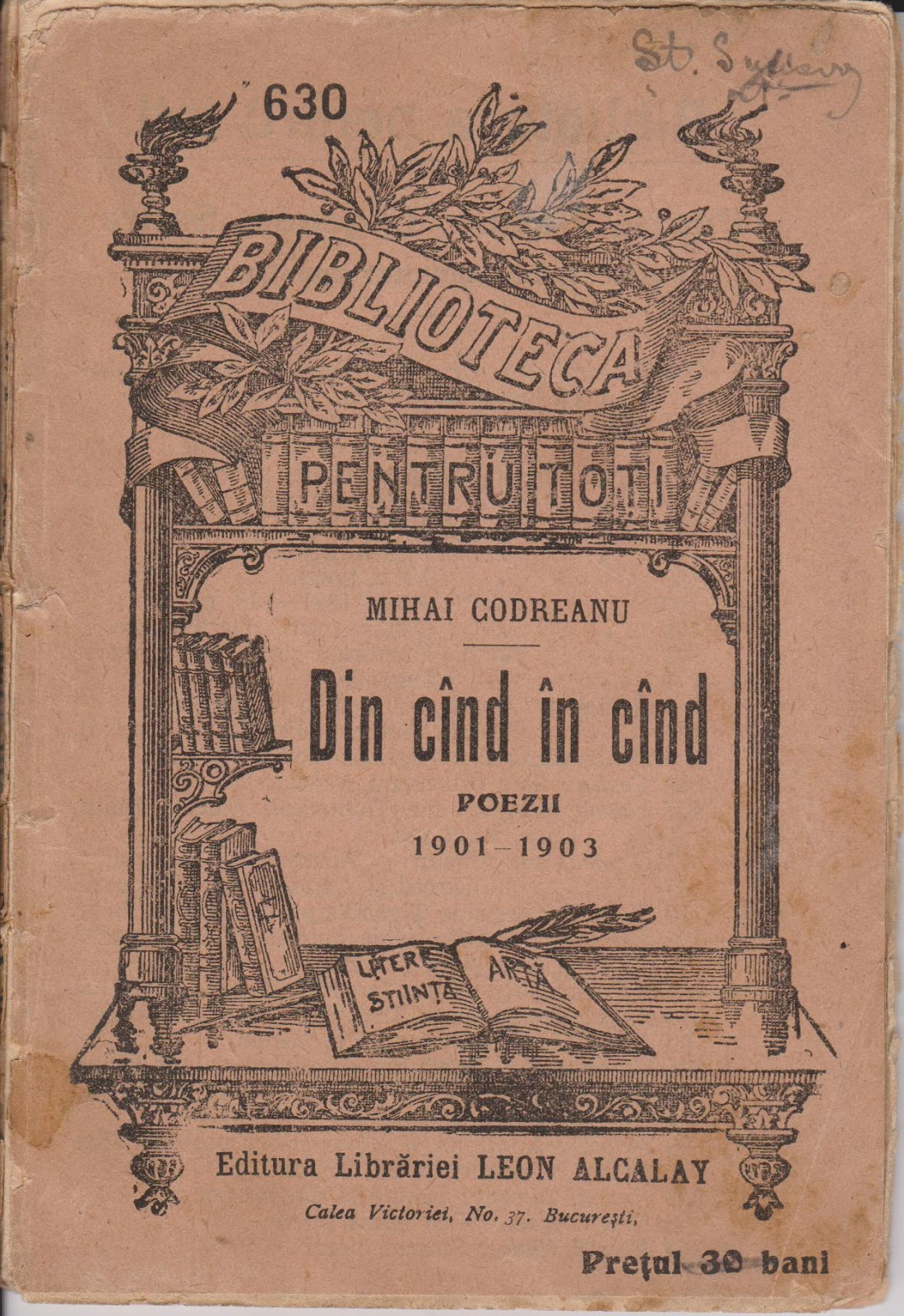 Title page of Mihai Codreanu's Din când în când sonnet volume.